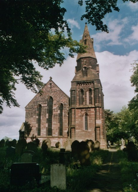 Christ Church parish church, Croft, Cheshire, seen from the west